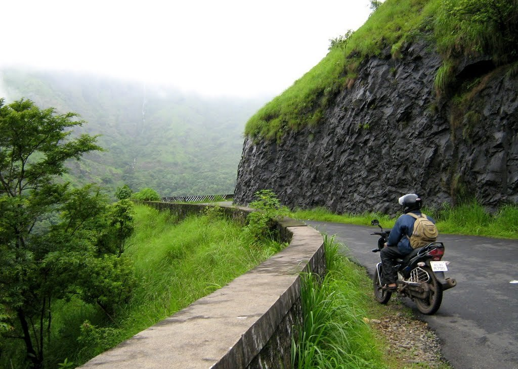 Route to Vagamon